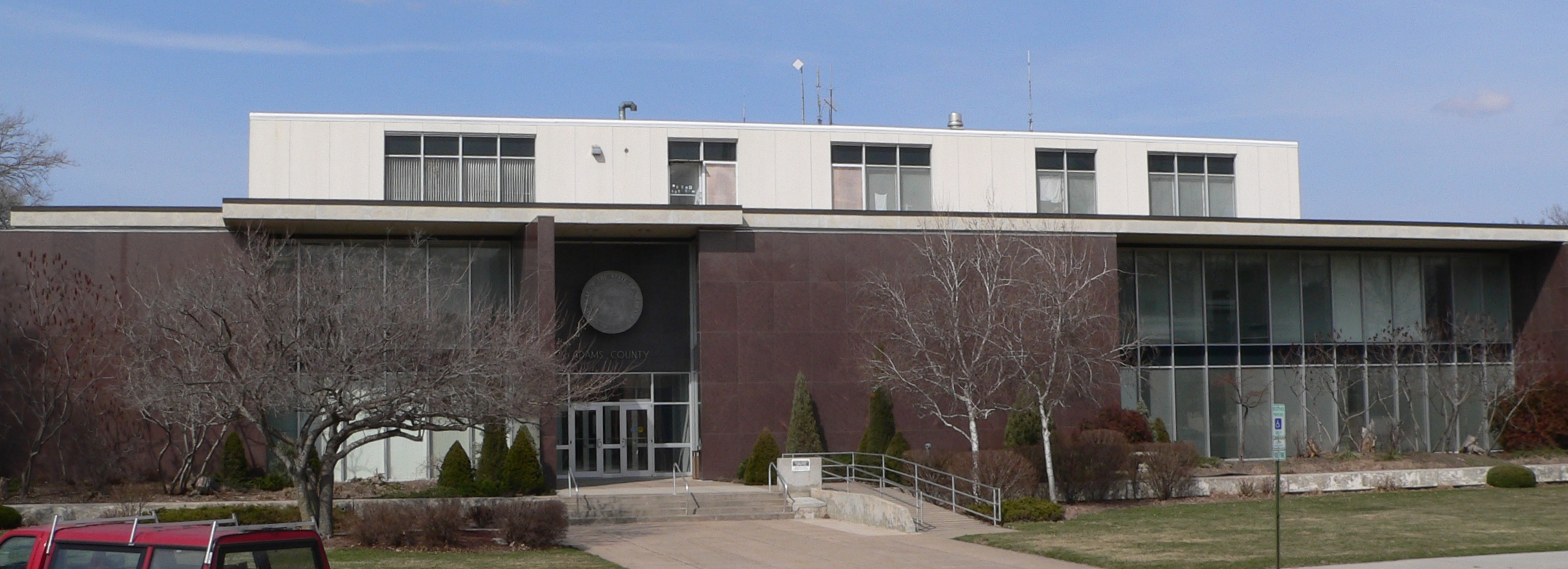 Adams County courthouse in Hastings, Nebraska; seen from the south. The building was constructed in 1962.